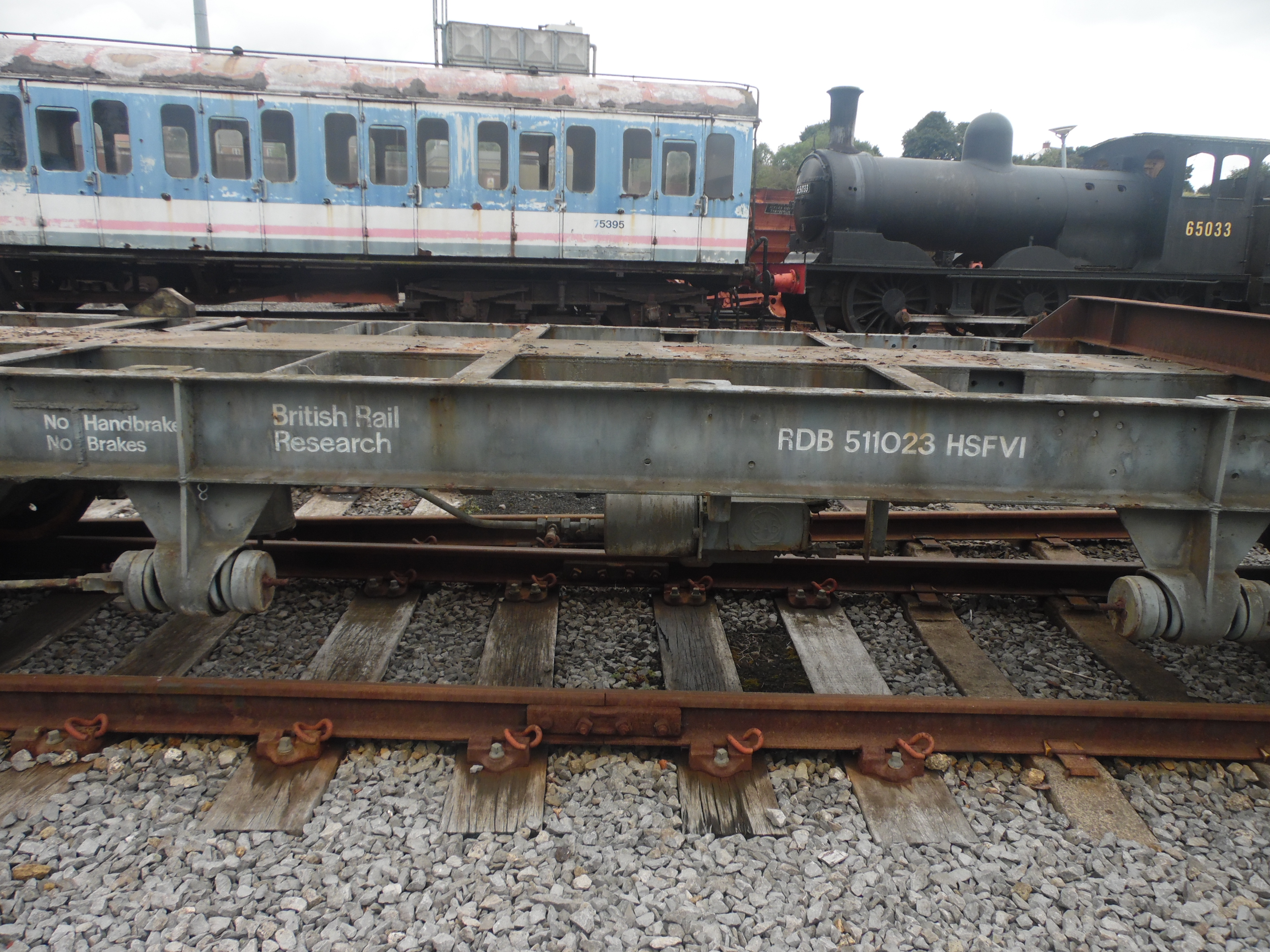 A image of the HSFV1 (RDB511023) at Locomotion: The National Railway Museum at Shildon. It was used as a high speed freight vehical, and also used as the Test bed for the Class 140 Pacers.